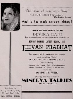 A cropped advertisement from the cine-magazine Filmindia, December 1937